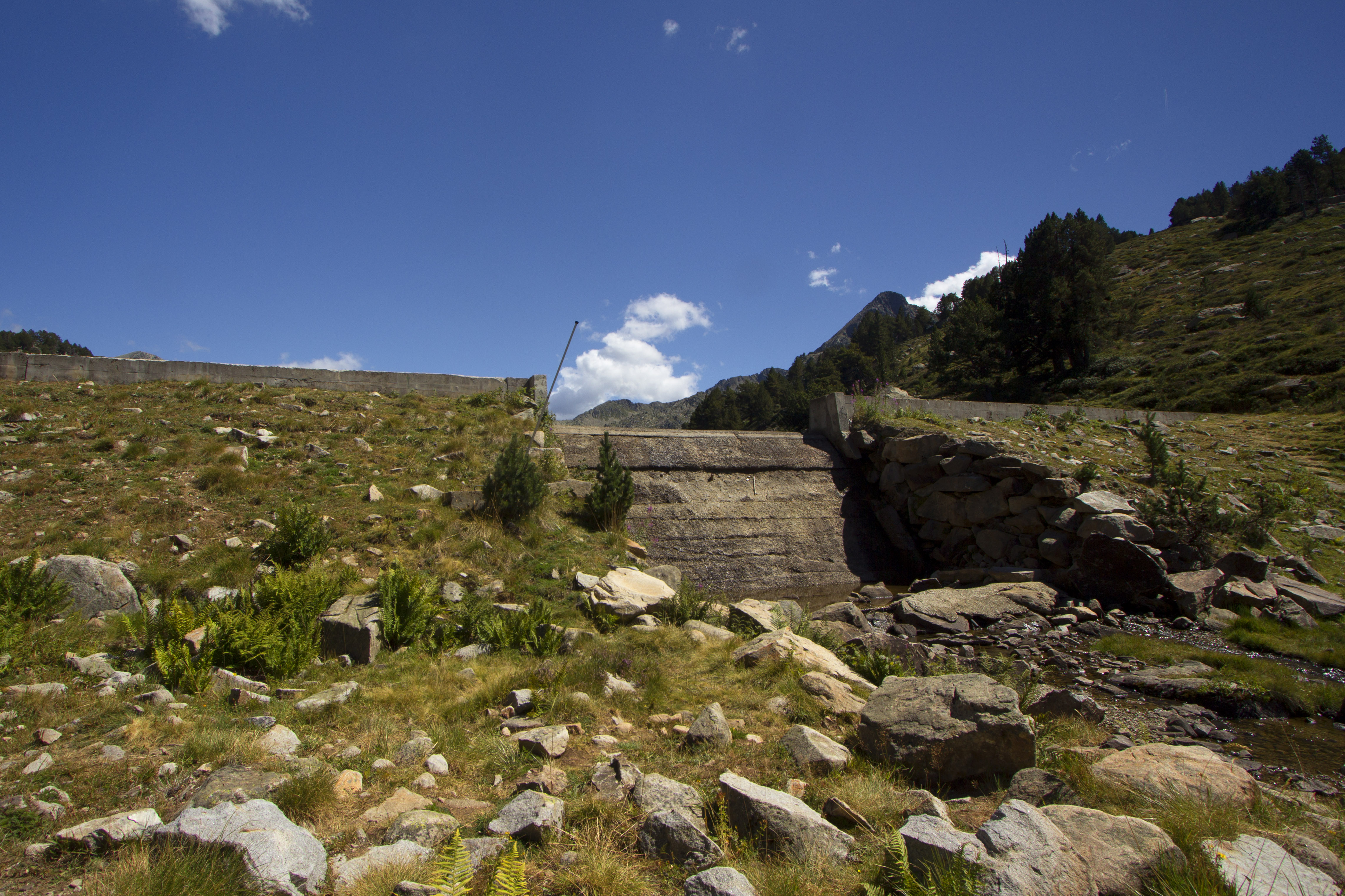 Dam at Baix de Baciber lake (Catalan Pyrenees)